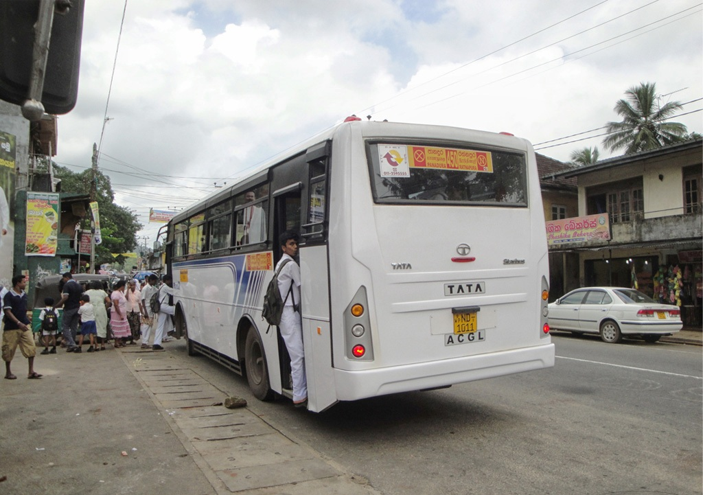 Ingiriya Transport03